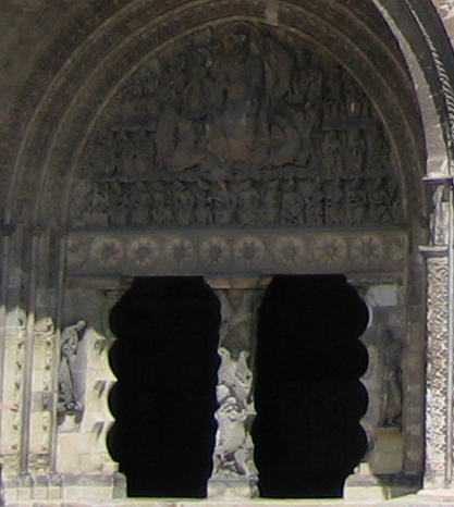 Moissac, Abbey seen from the South